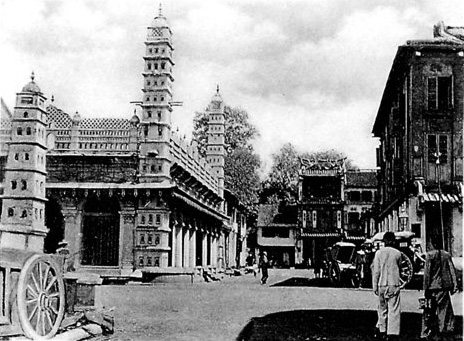 photo from Ein Tagebuch in Bildern